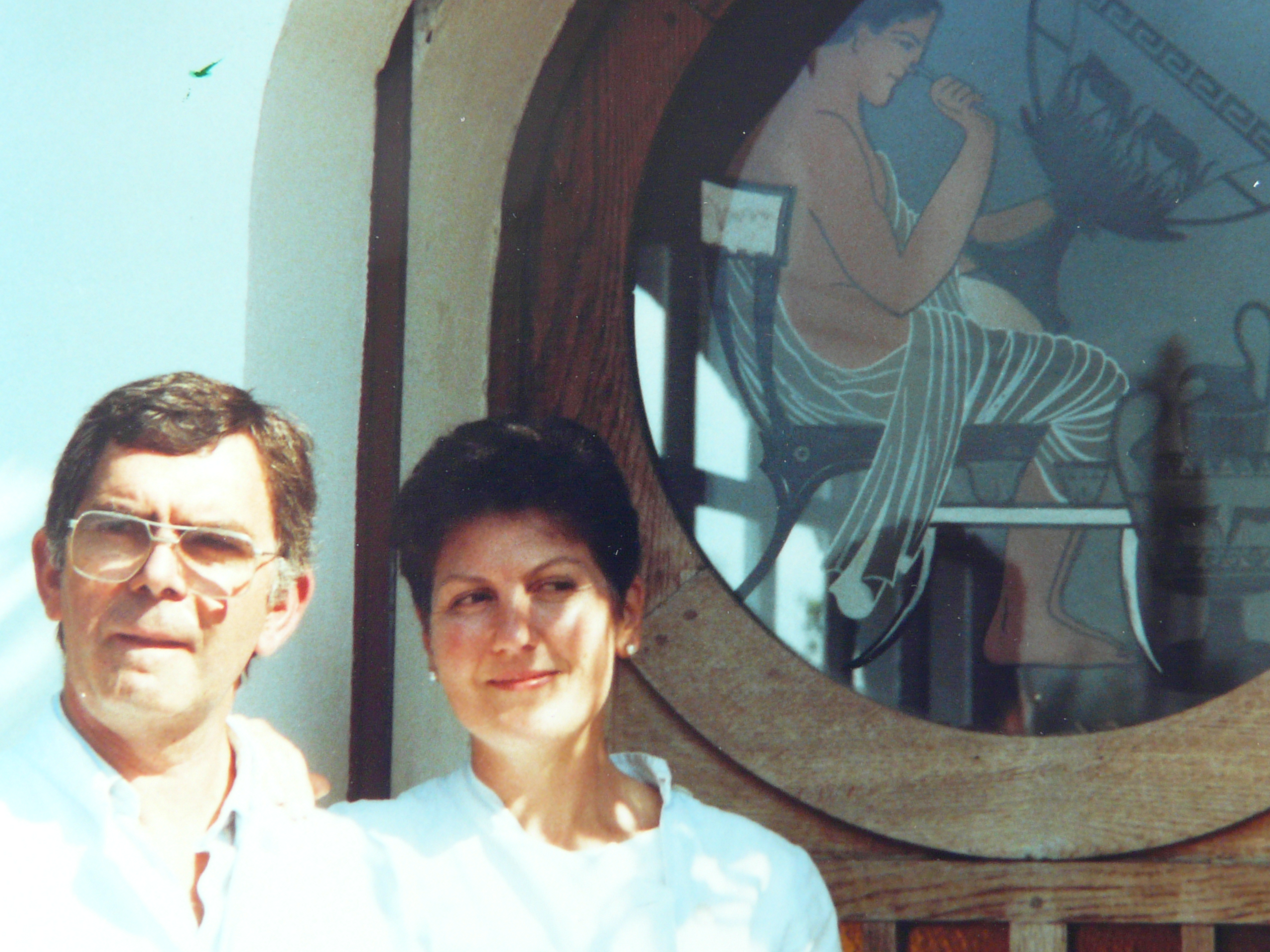 Max et Carmen Fischer devant la poterie de Ciboure